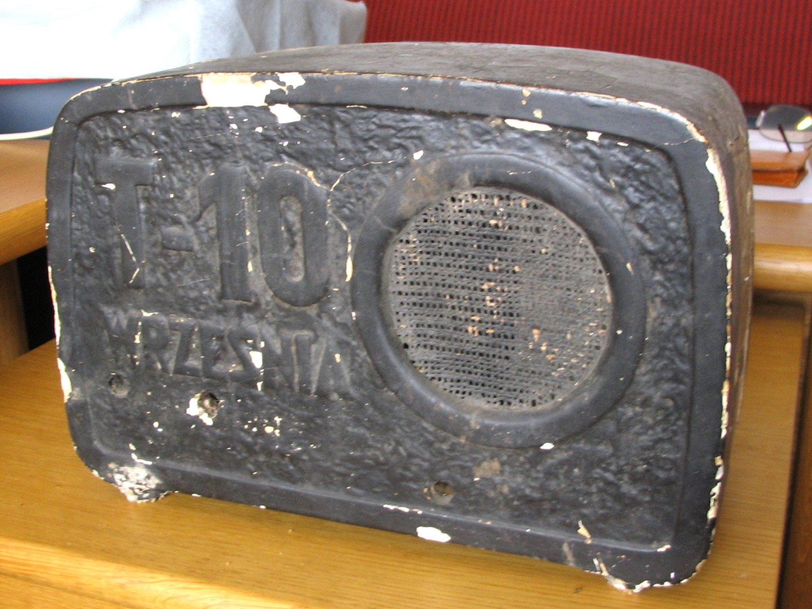 Loudspeaker T-10 - Poland - 1955